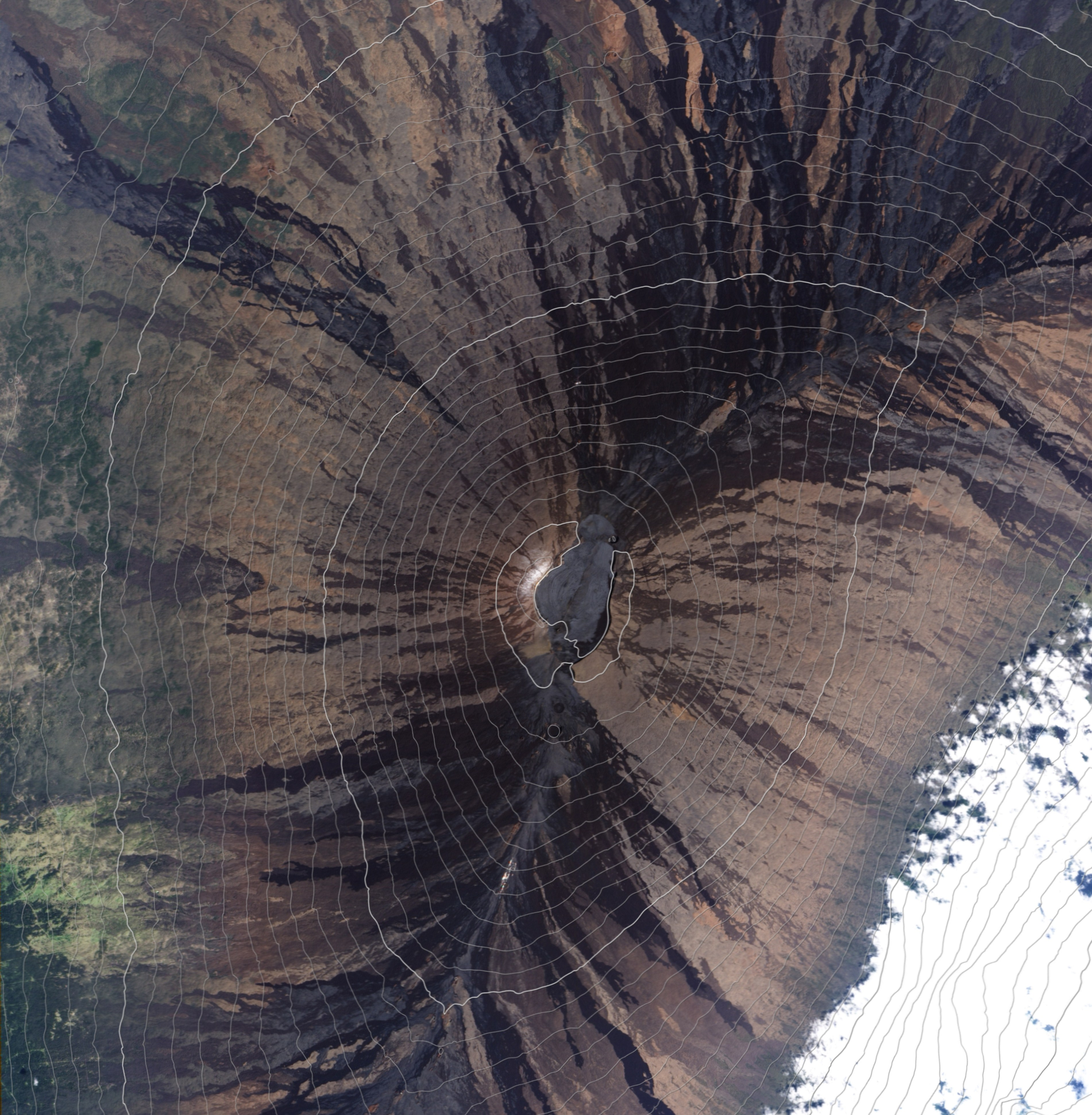 This natural-colour satellite image of the summit of Mauna Loa — overlaid with 100-meter contour lines, helps illustrate why volcanic emissions from the summit rarely reach the observatory. The observatory is located on the northern slope of the mountain, 6 kilometres away from and 800 meters lower than the summit. Most of the time, the prevailing north-easterly trade winds prevent volcanically contaminated air from reaching the observatory. Only on a small percentage of nights do the winds become light and southerly, pushing volcanic emissions downhill to the observatory.